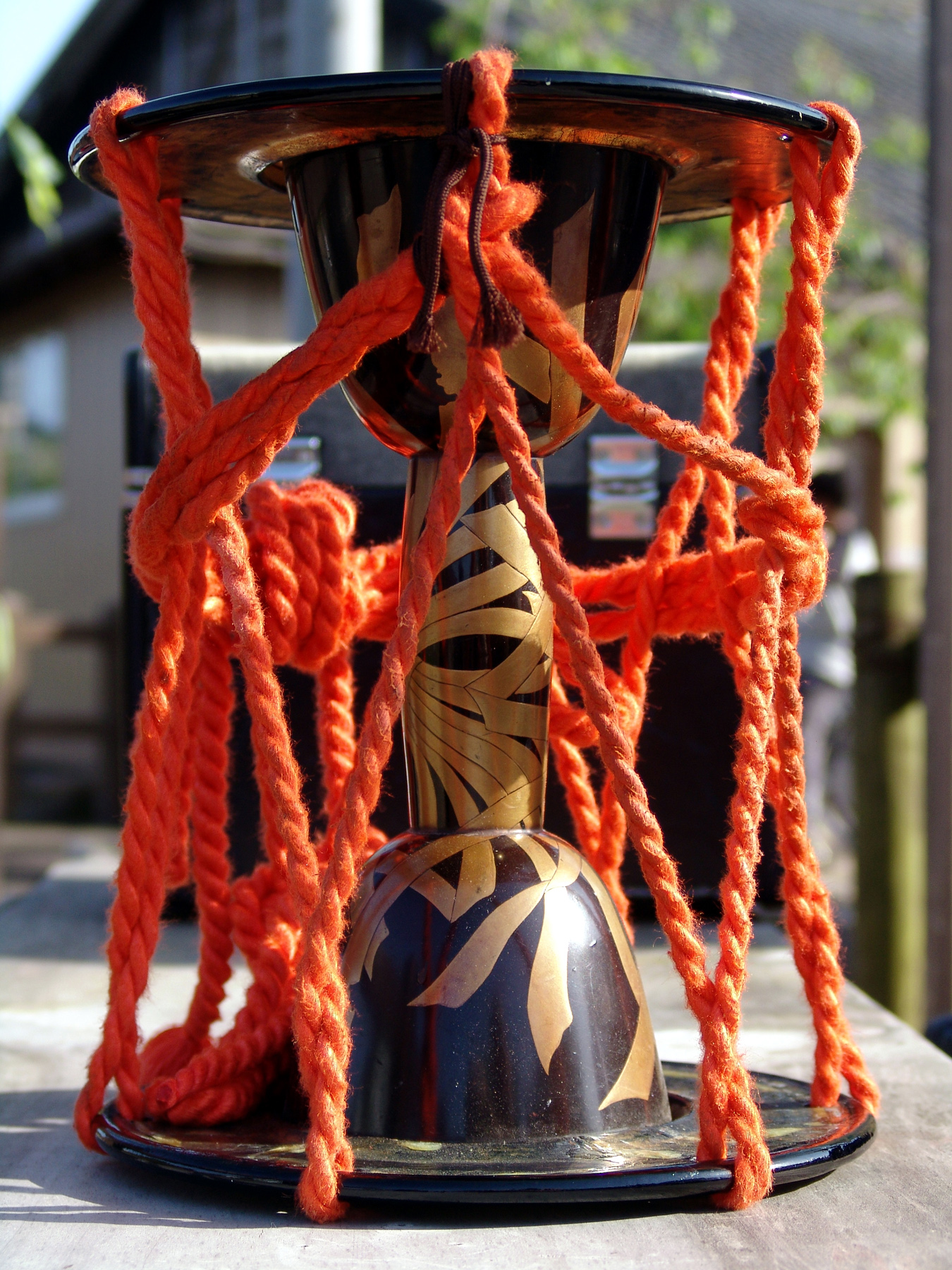 A decorated Japanese drum